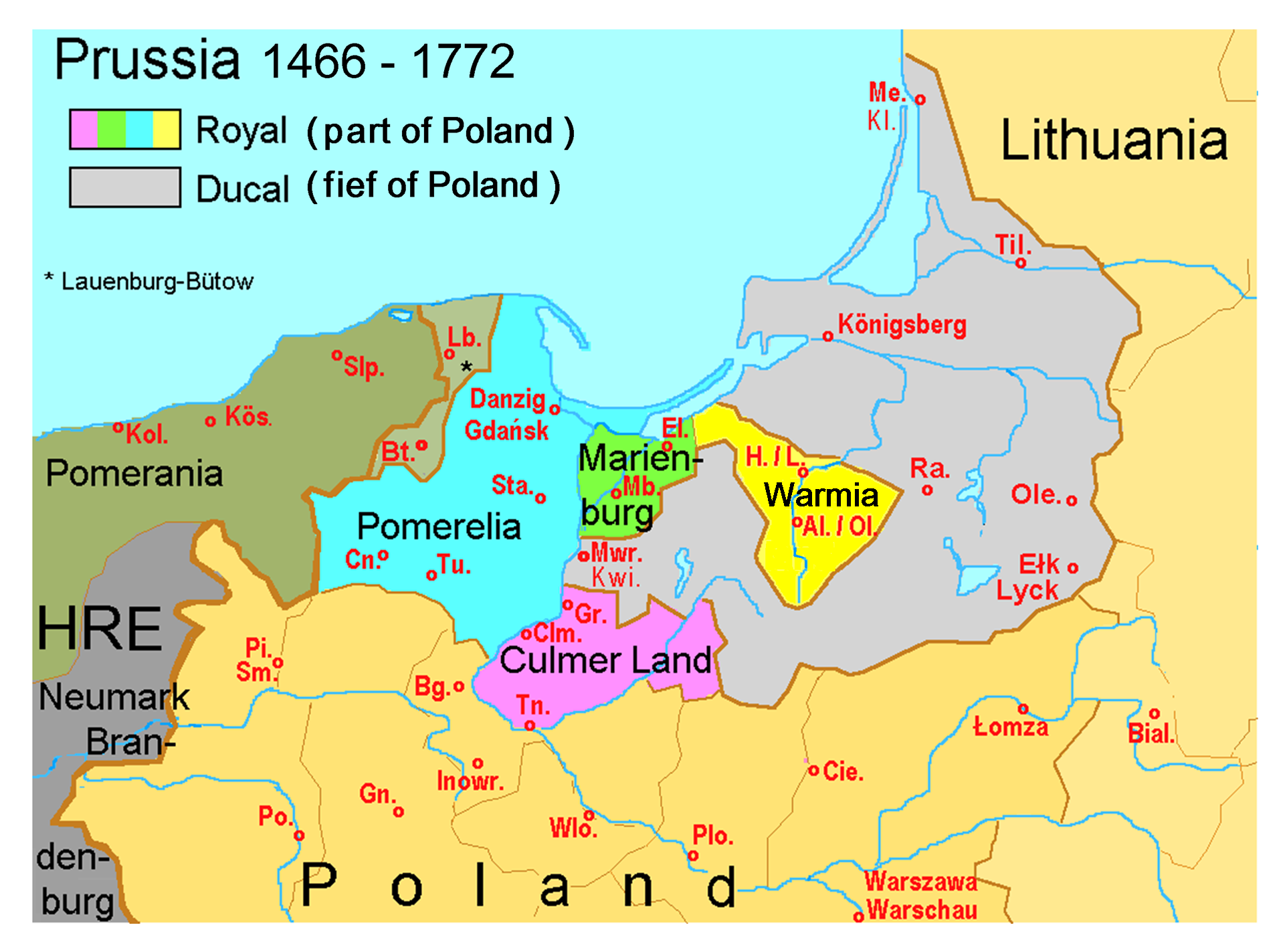 Prussia from 1466 to 1772: Coloured (blue, bright green, magenta, yellow): The voyewod-districts of Royal (i.e. Polish) Prussia Light gray: The Dukedom of Prussia (up to 1525 state of the Teutonic Order, after 1701 royal province of the Kingdom of Prussia)